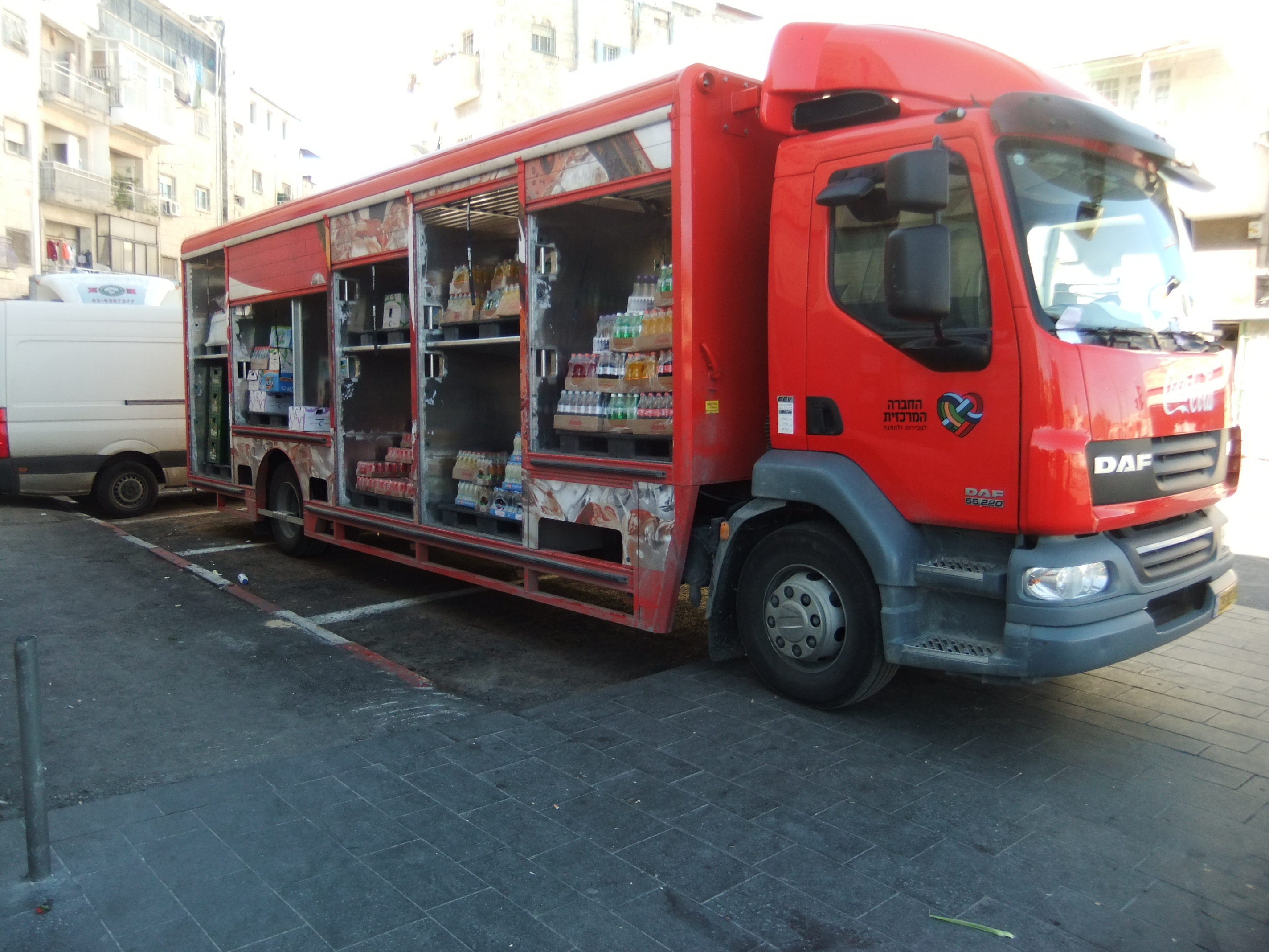 Jerusalem, Beit Ya'akov street - Coca-Cola truck in Jerusalem